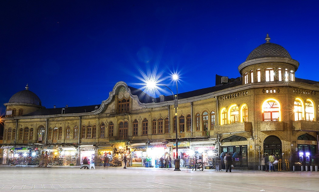 Hamedan